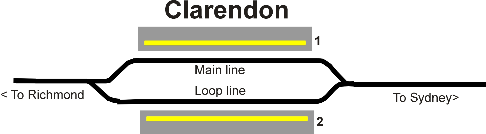 Track layout at Clarendon railway station